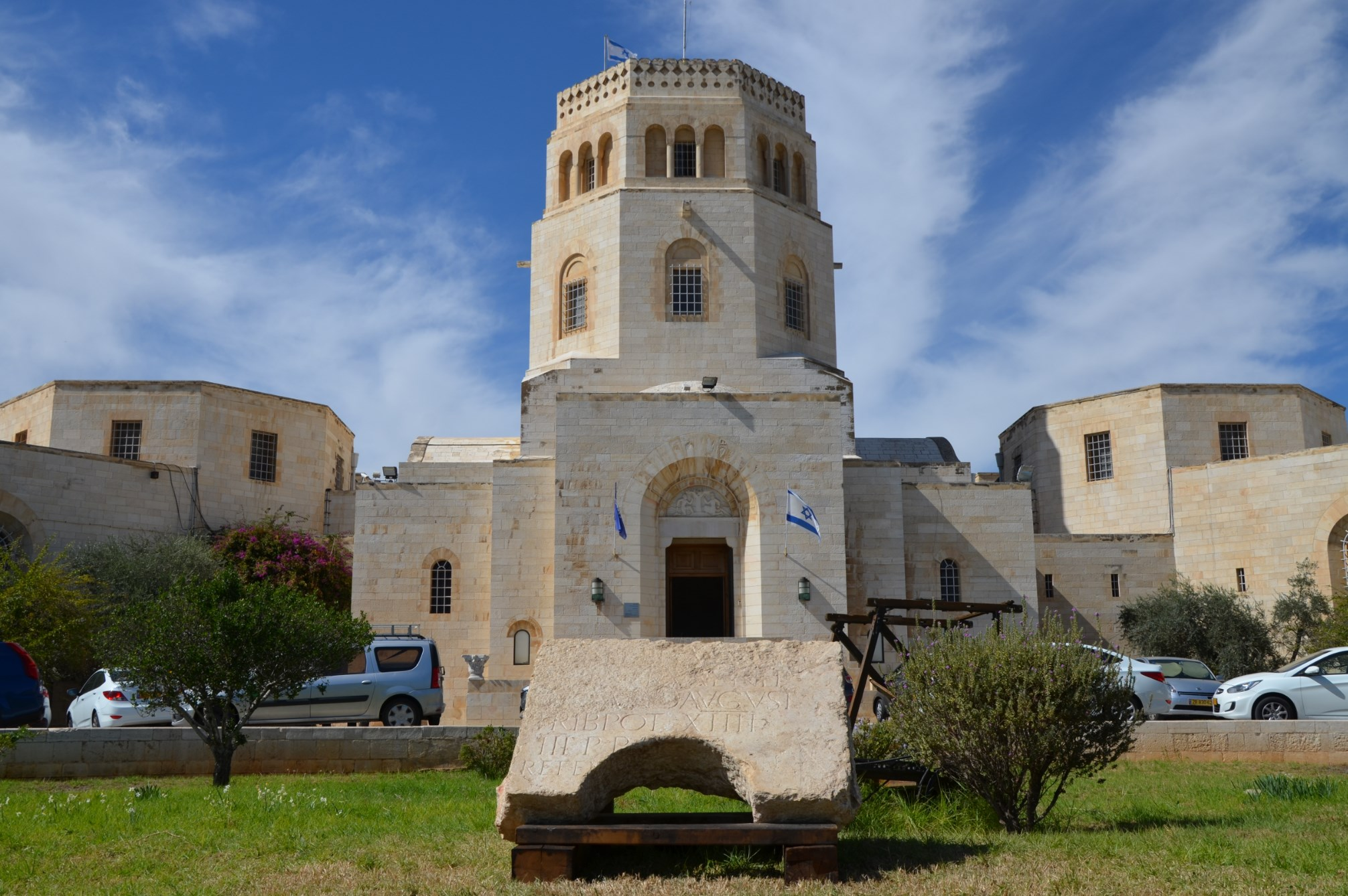 Photo of the Latin inscription set against the Rockefeller Museum, seat of the Israel Antiquities Authority in Jerusalem. (Not there any more as of September 2018.)